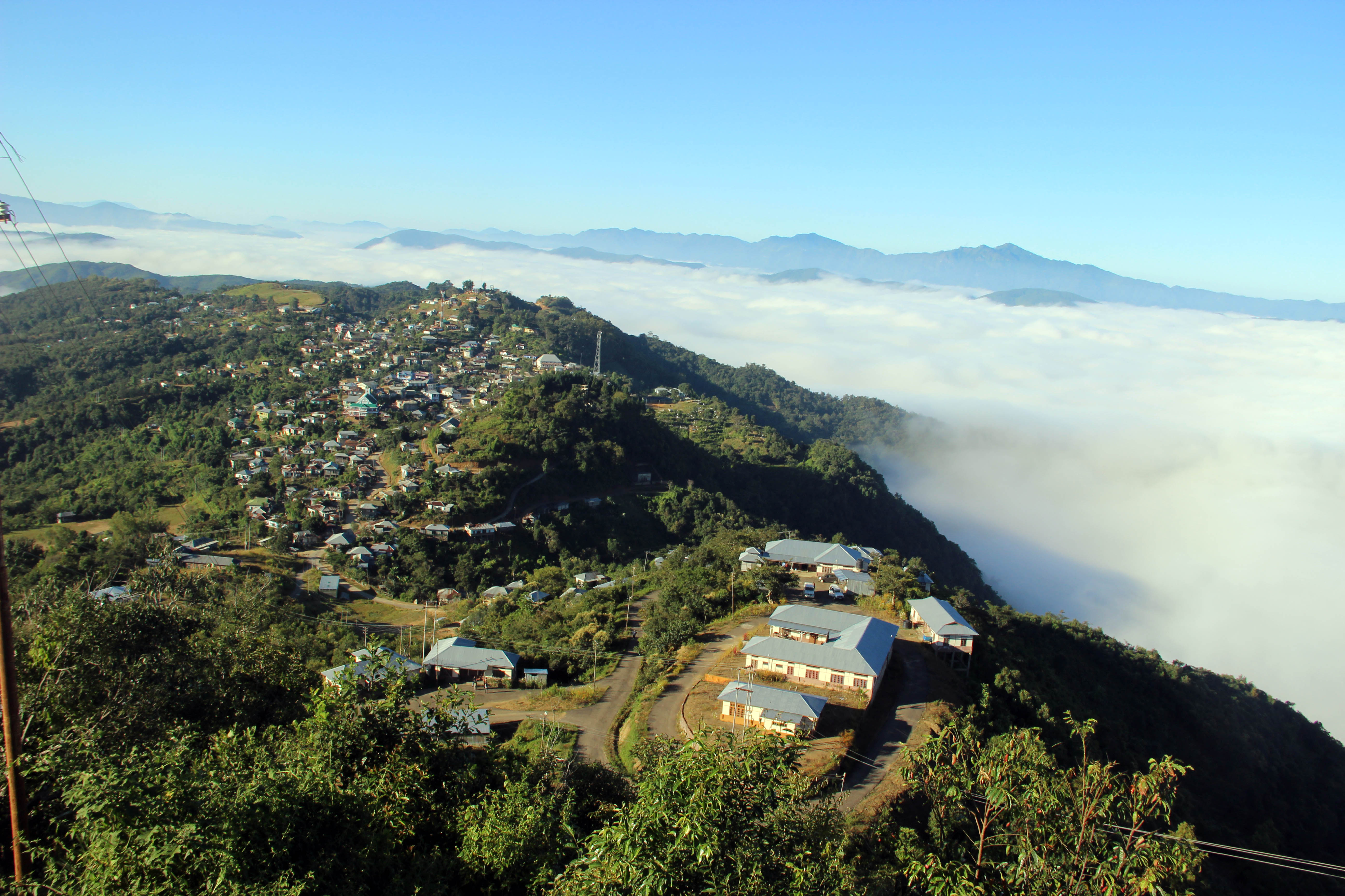 Khawbung[1] is an important village in the eastern part of Mizoram, India.